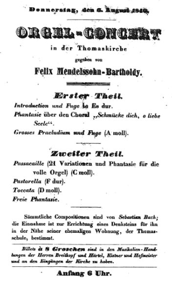 Programme of Organ Concert in the Thomaskirche, Leipzig, given by Felix Mendelssohn in 1840